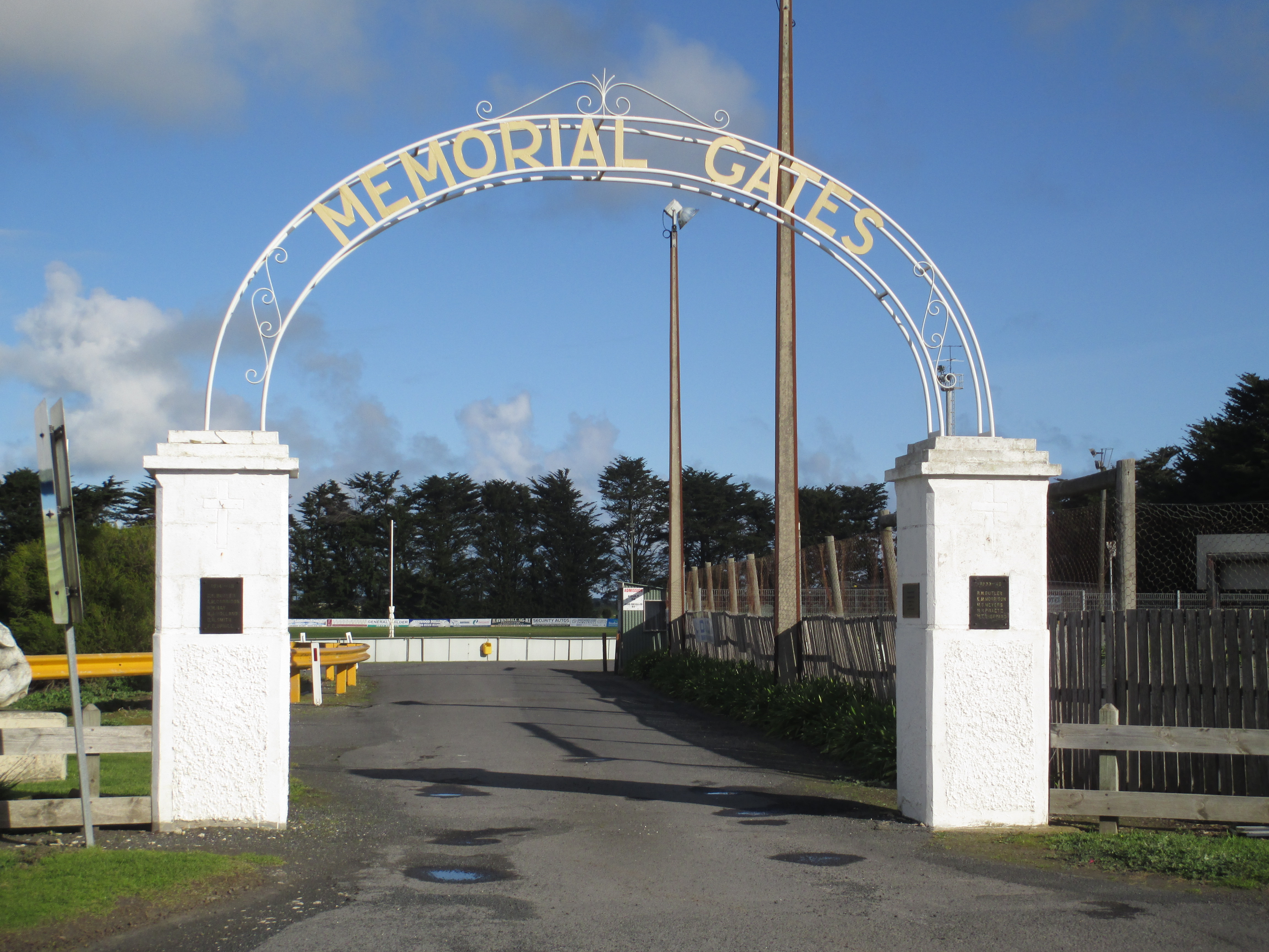 Kongorong memorial gates (6x WW1, 5x WW2, 1x Vietnam locals killed)